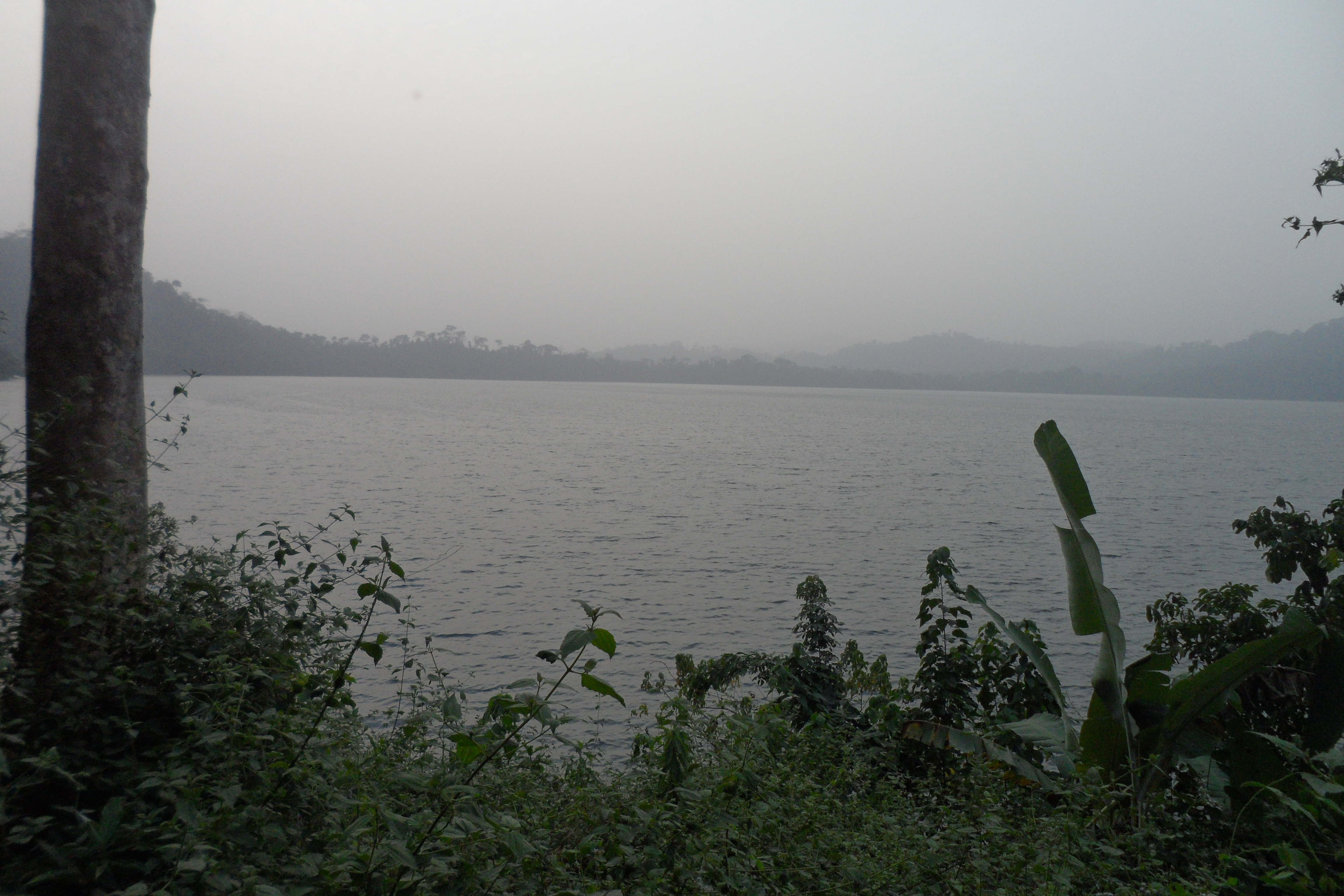 View of Lake Barombi from the Western part